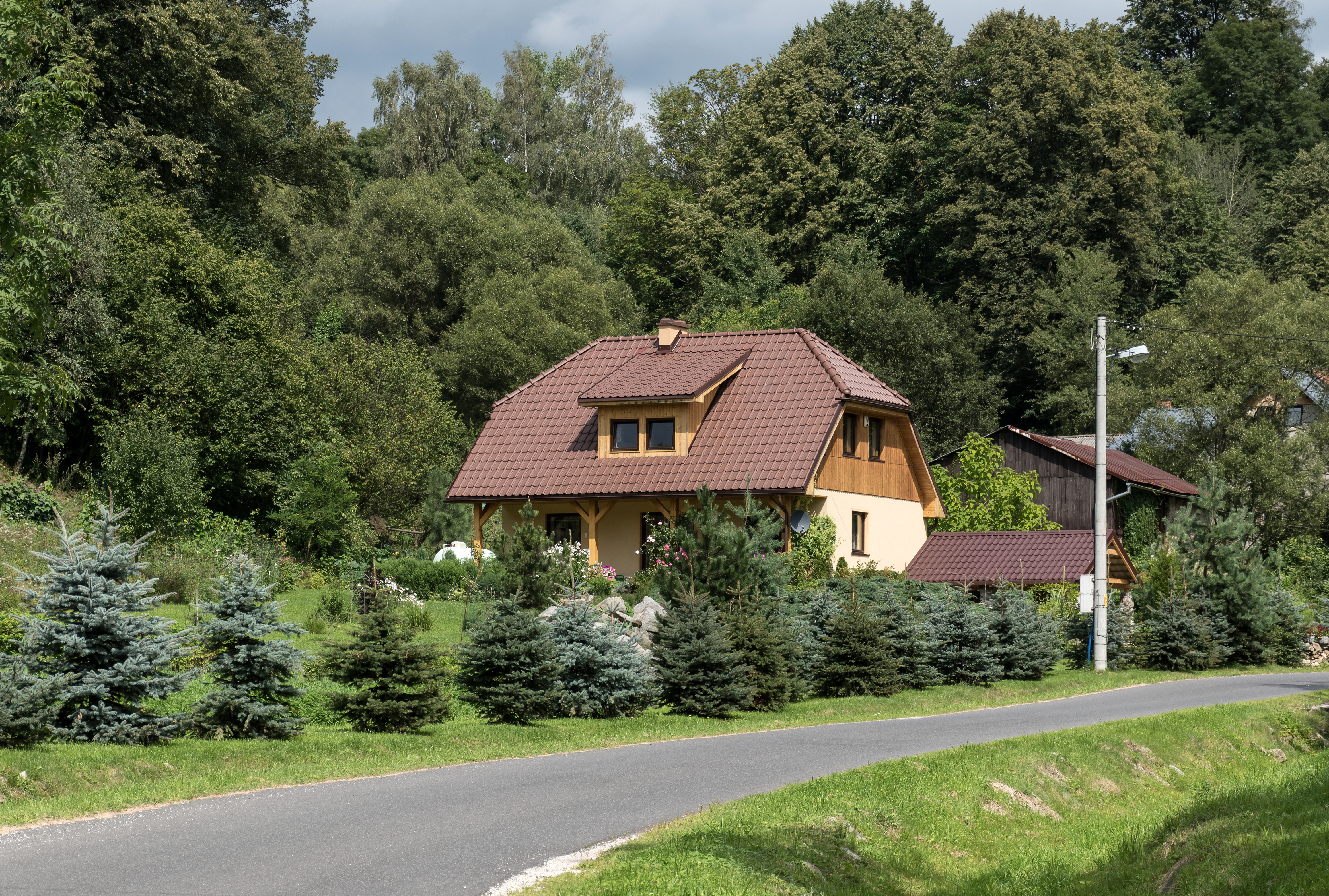 House in Droszków